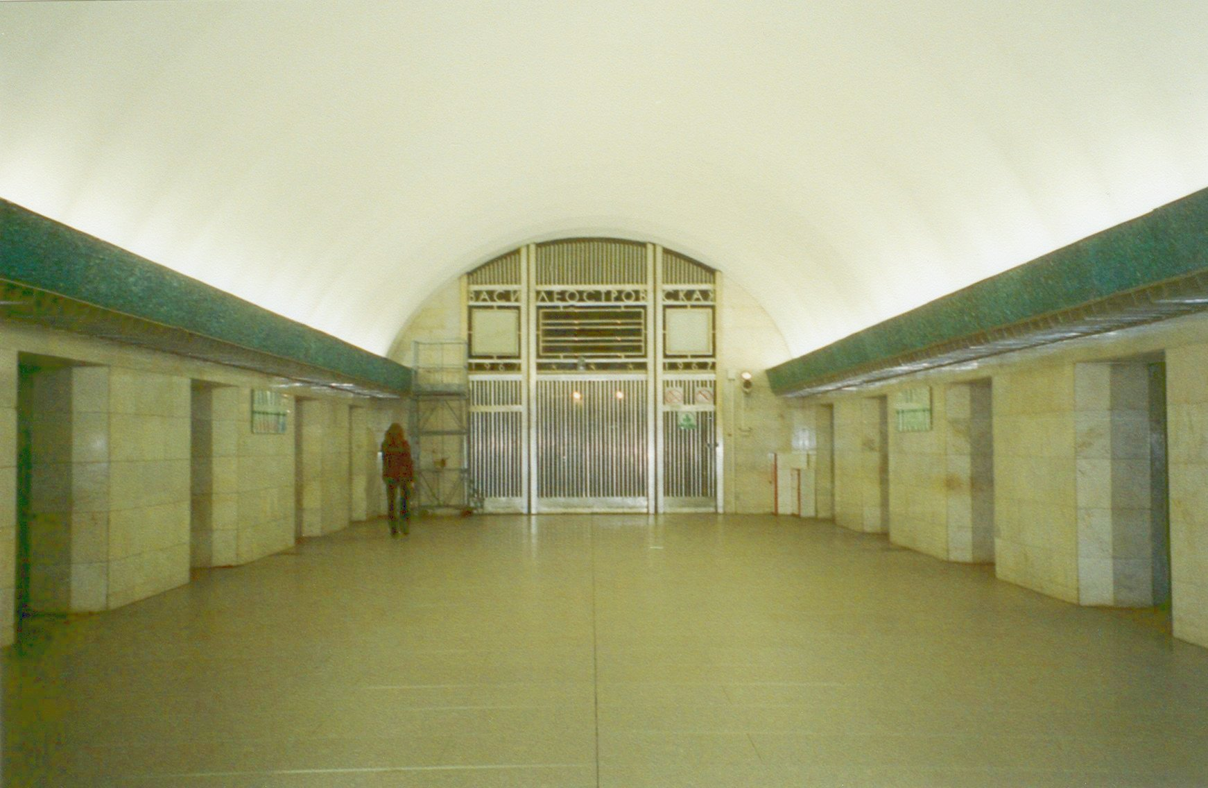 Vasileostrovskaya metrostation.